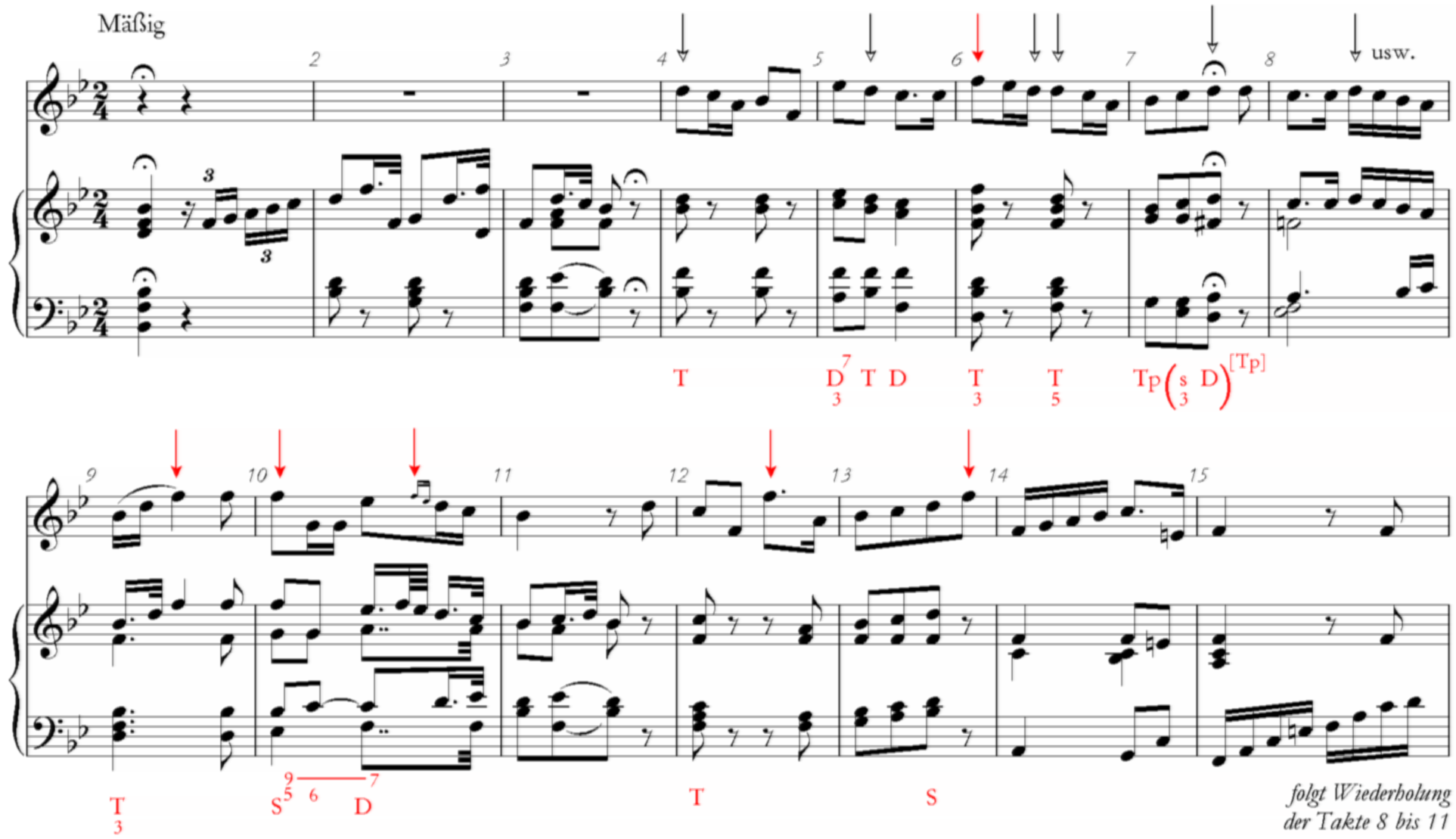 Franz Schubert, "Die schöne Müllerin" No. 13, "Mit dem grünen Lautenbande" mm. 1-13, with details of analysis (explanation to A. Schönberg's "Harmonielehre" p. 142)